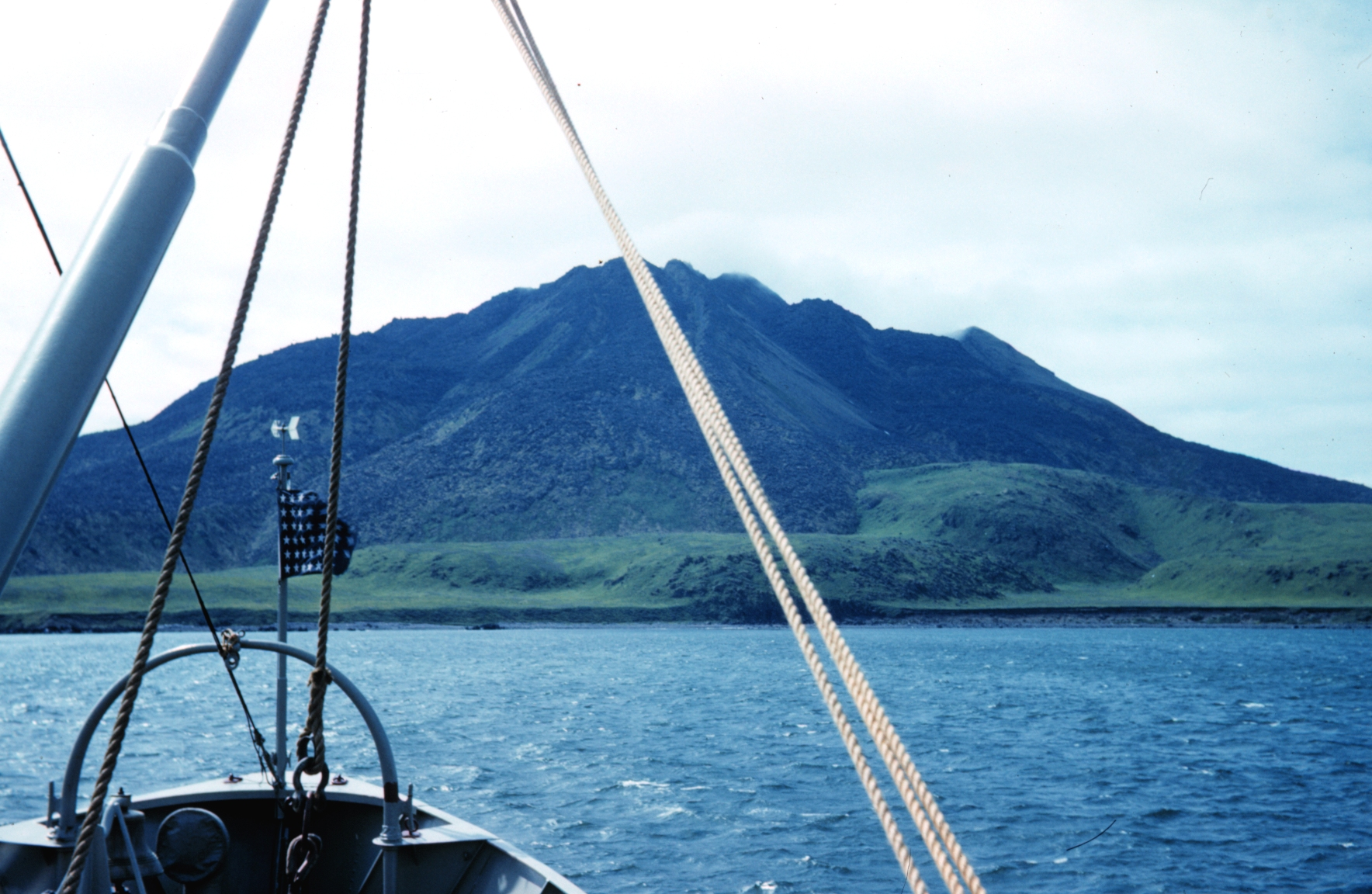 Amak Island, Aleutian Islands, Alaska, from the PATHFINDER